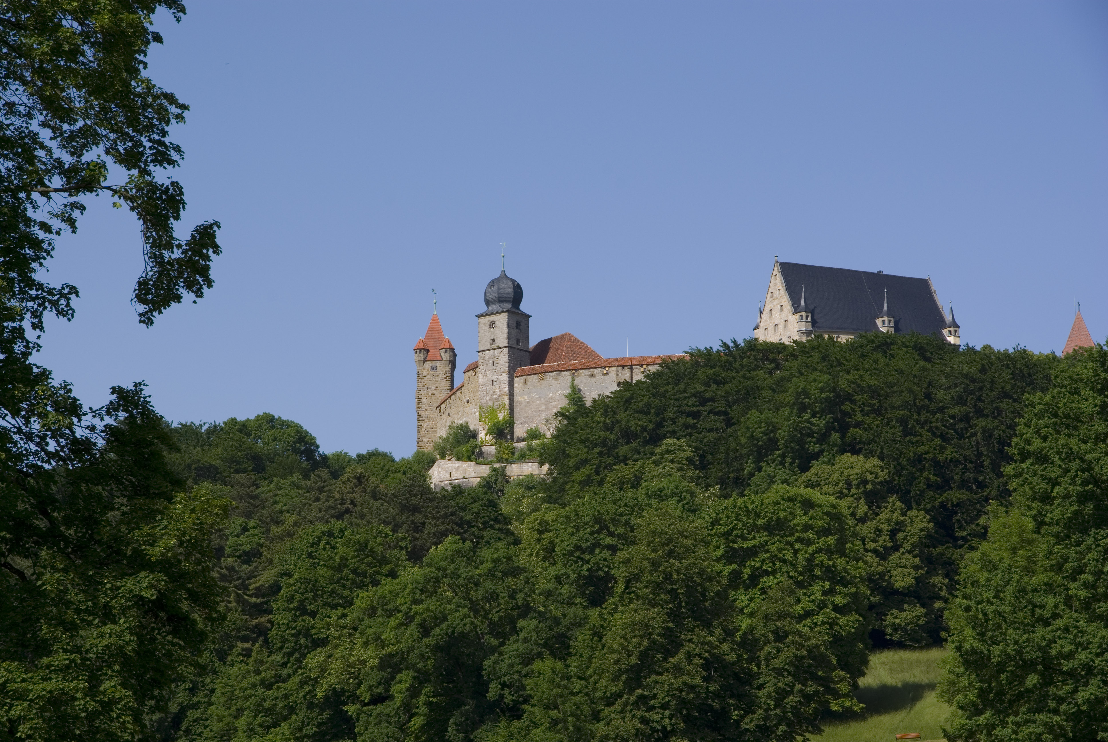 The castle Veste Coburg in Germany.